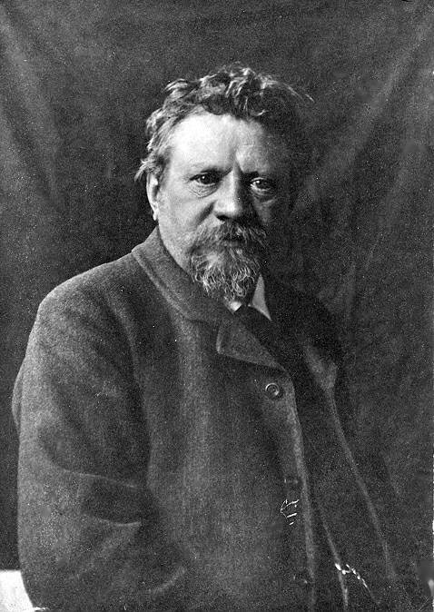 The older Heinrich Weltring (1847-1917), he was a German sculptor